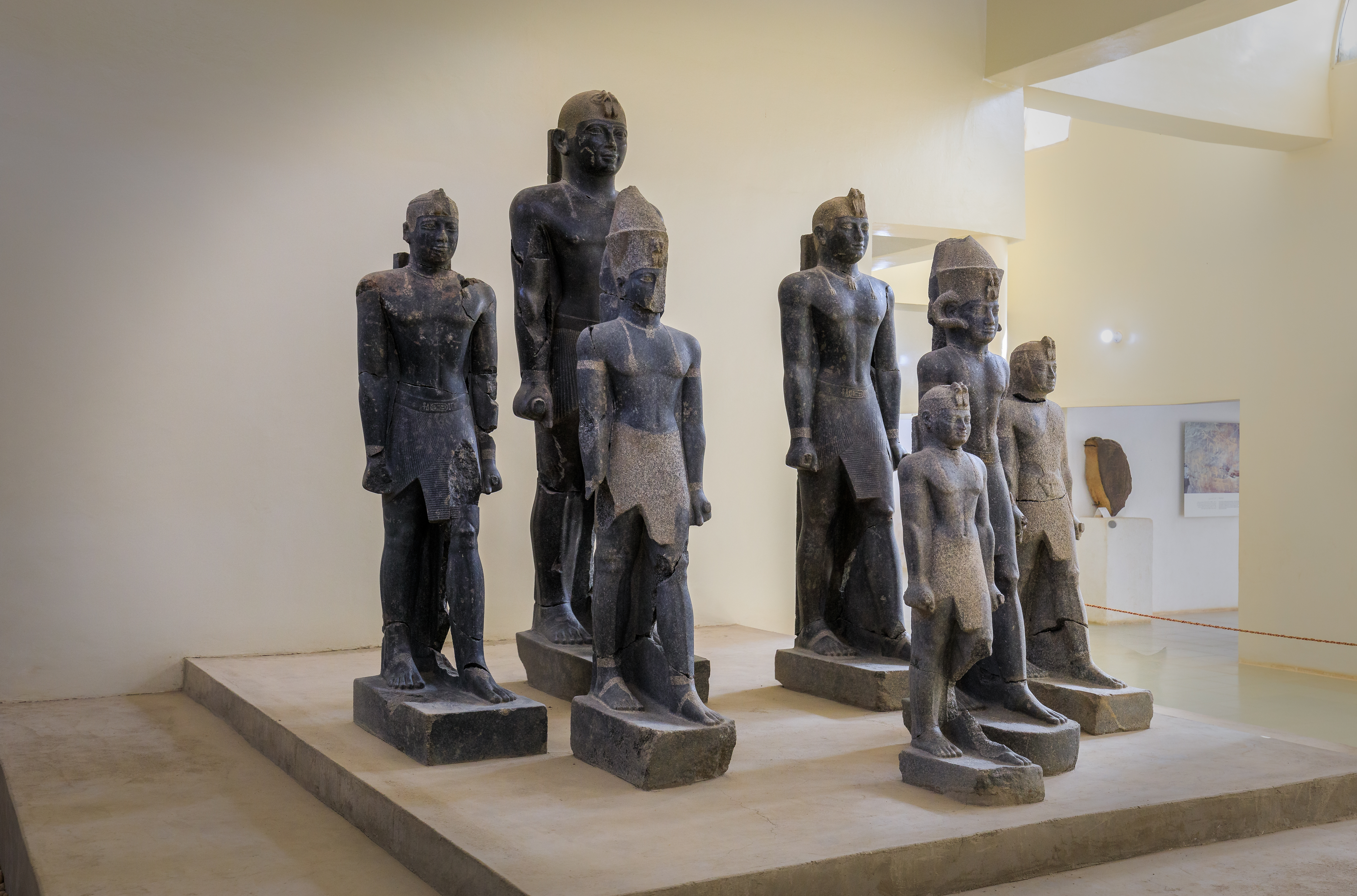 Black Pharaohs and Kings left to right: Tanotamun, Taharqa (rear), Senkamanisken, again Tanotamun (rear), Aspelta, Anlamani, again Senkamanisken. Found in 2003 by swiss archaeologist Charles Bonnet in a cahe in Dukki Gel. They were broken carefully and hidden in a cache c. 590 BC in order - probably - to preven commemoration.